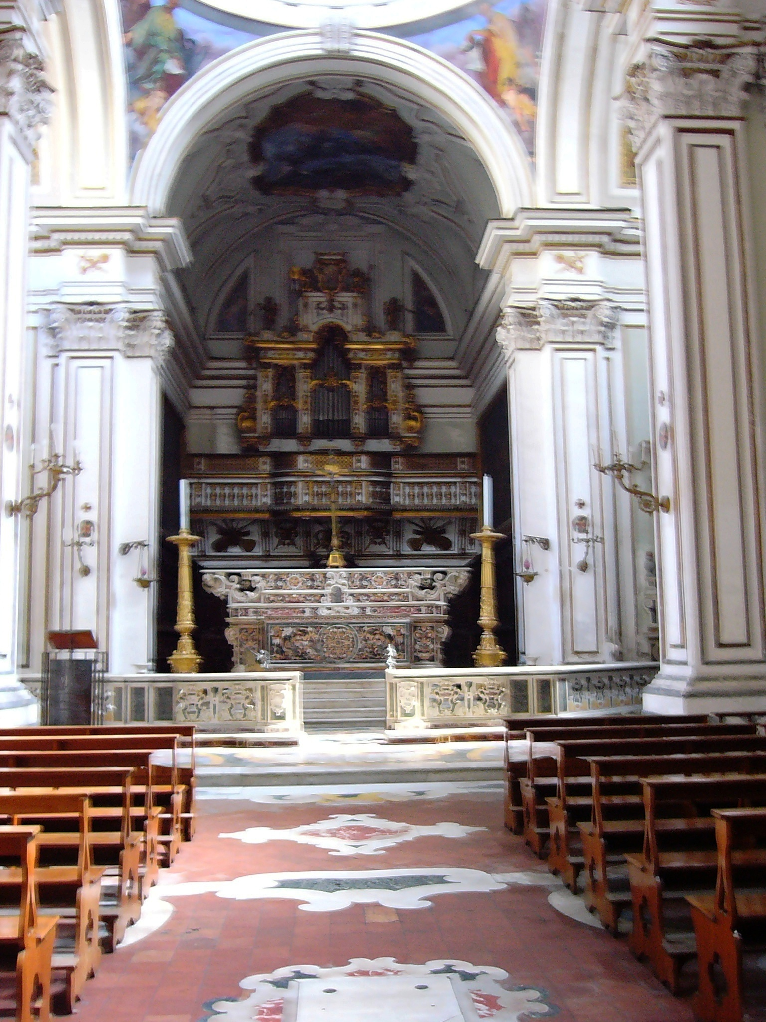 central nave of Monteverginella church